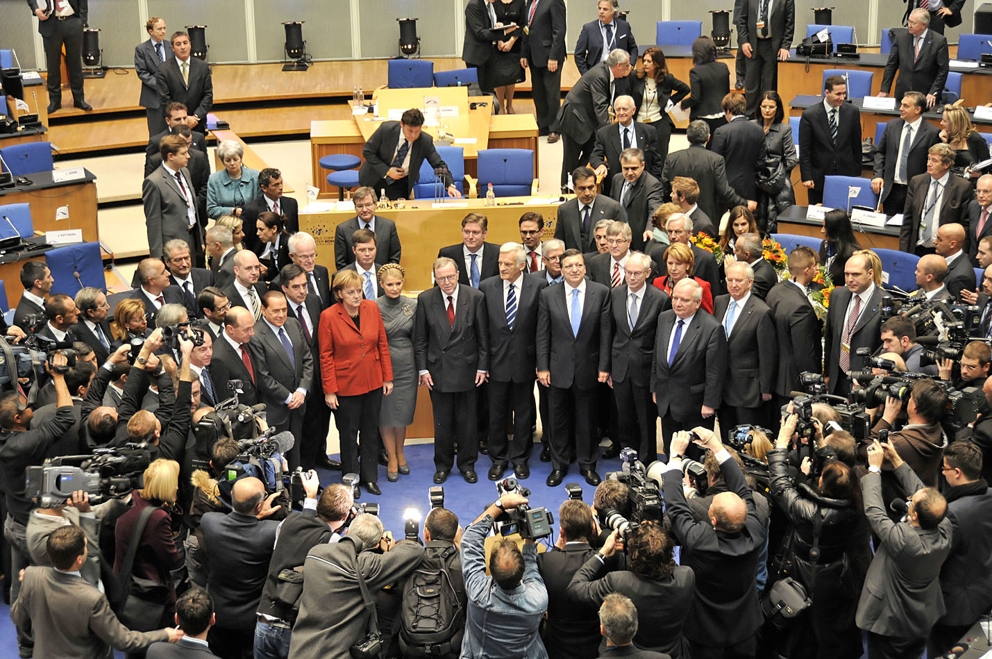 EPP Congress Bonn